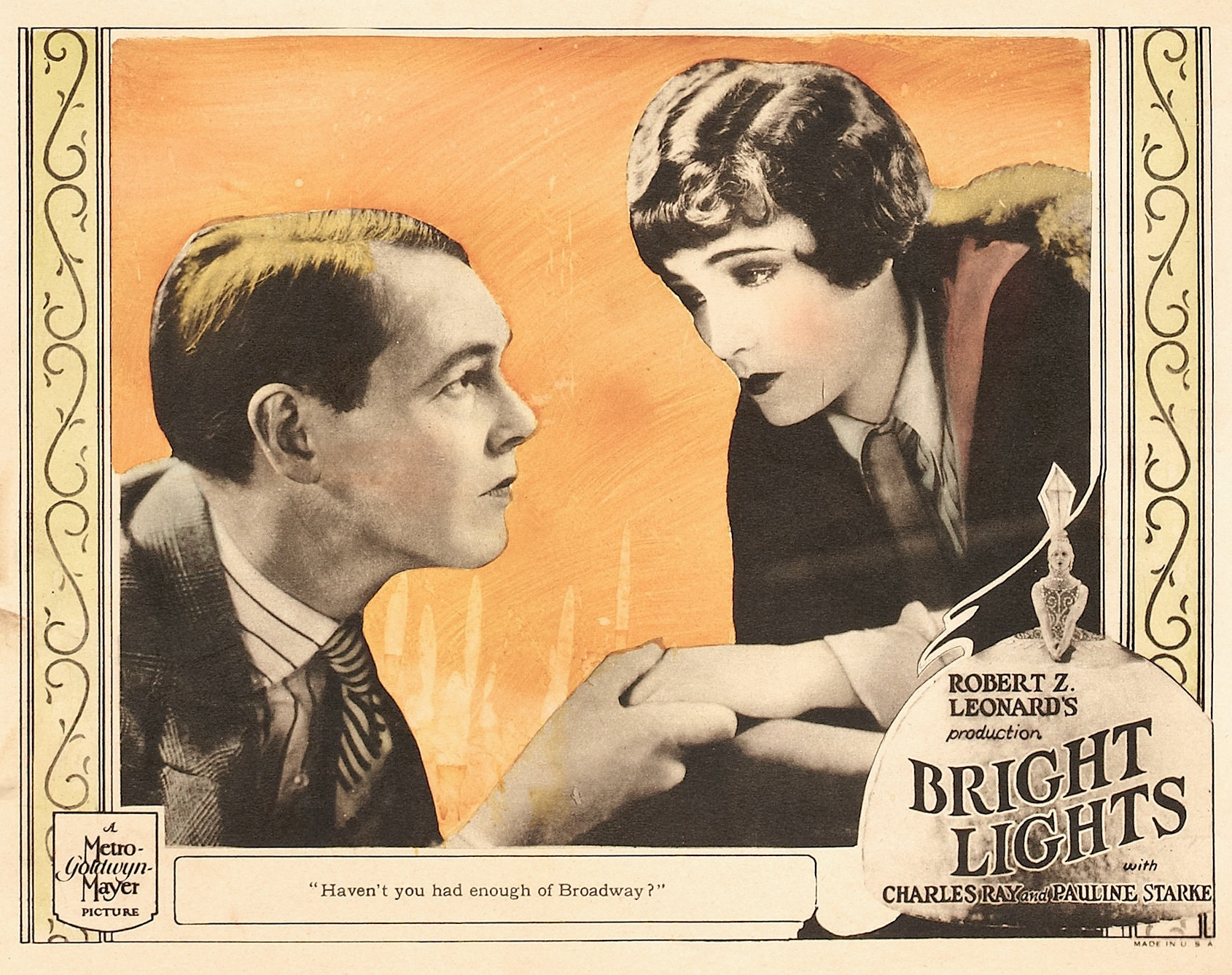 Bright Lights is a 1925 American silent romantic comedy film directed by Robert Z. Leonard. This is a lobby card for the film.